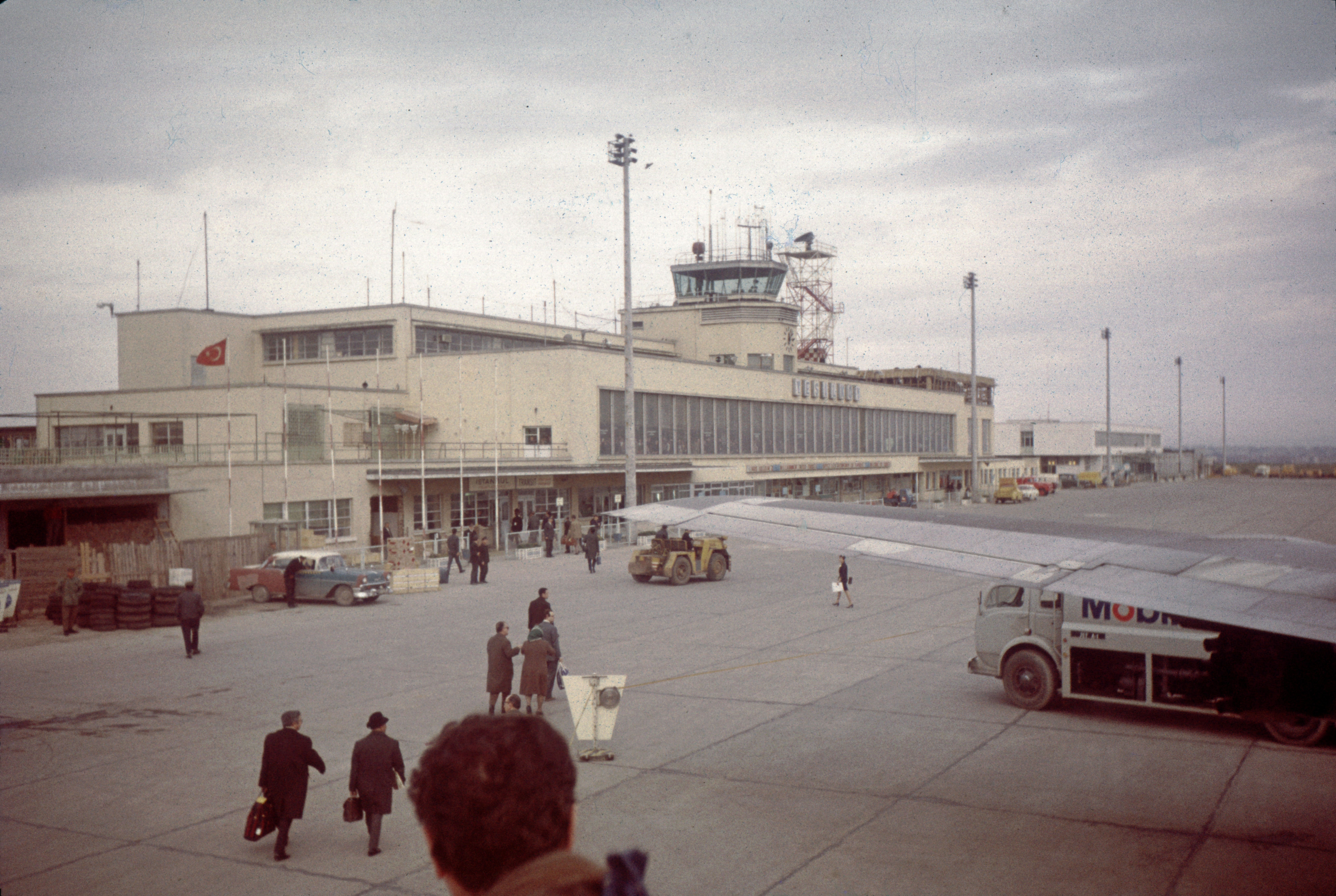 Photography by Victor Albert Grigas (1919-2017)